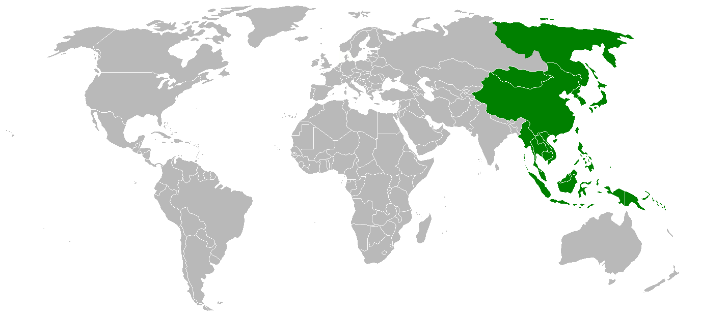 Modified Version of Image:Far_east.PNG